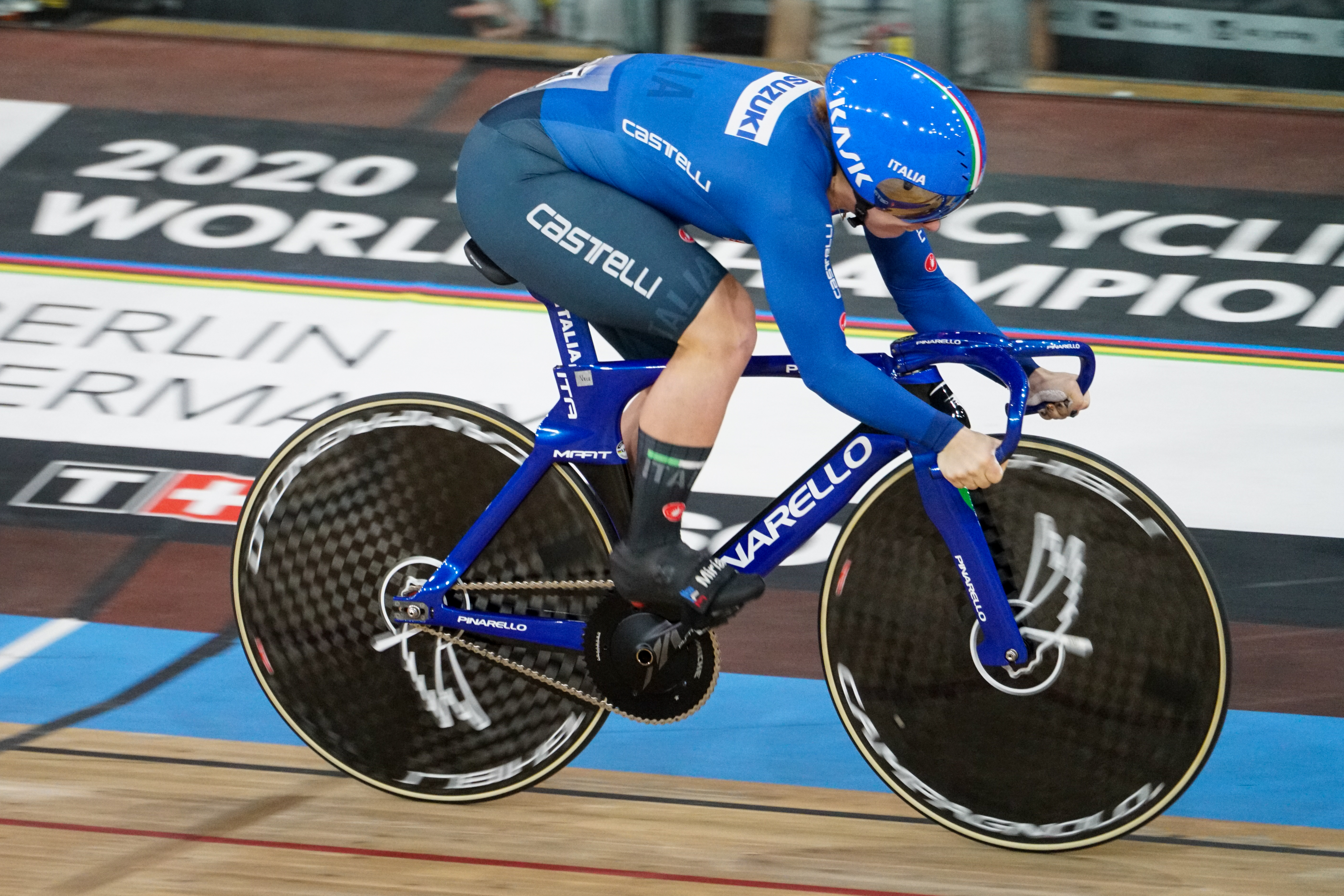 2020 UCI Track Cycling World Championships – Women's 500m Time Trial – Final